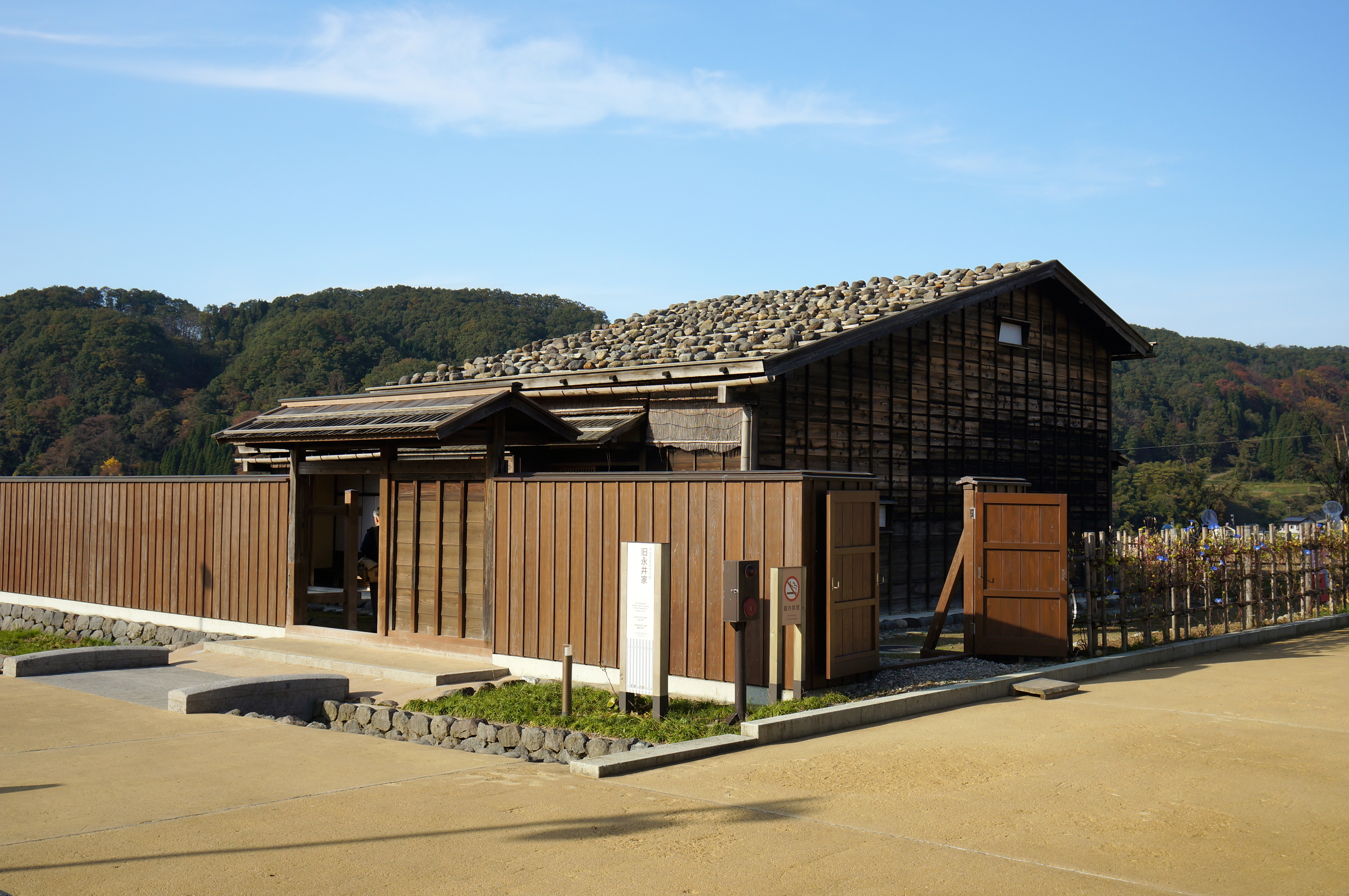 At Kanazawa Yuwaku Edomura in Kanazawa, Ishikawa prefecture, Japan.